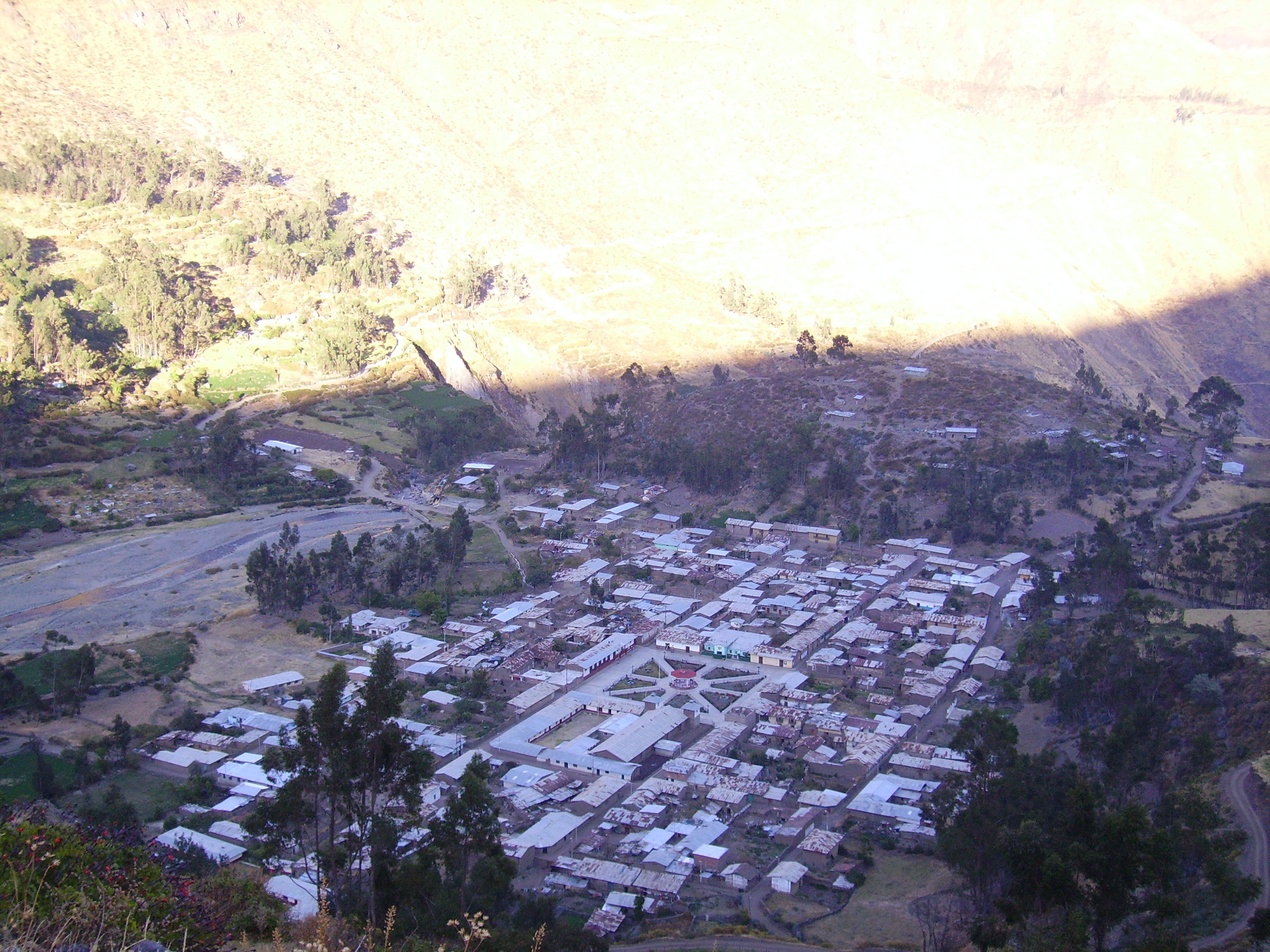 Gorgor and Gorgor River, Gorgor District, Lima Region, Peru